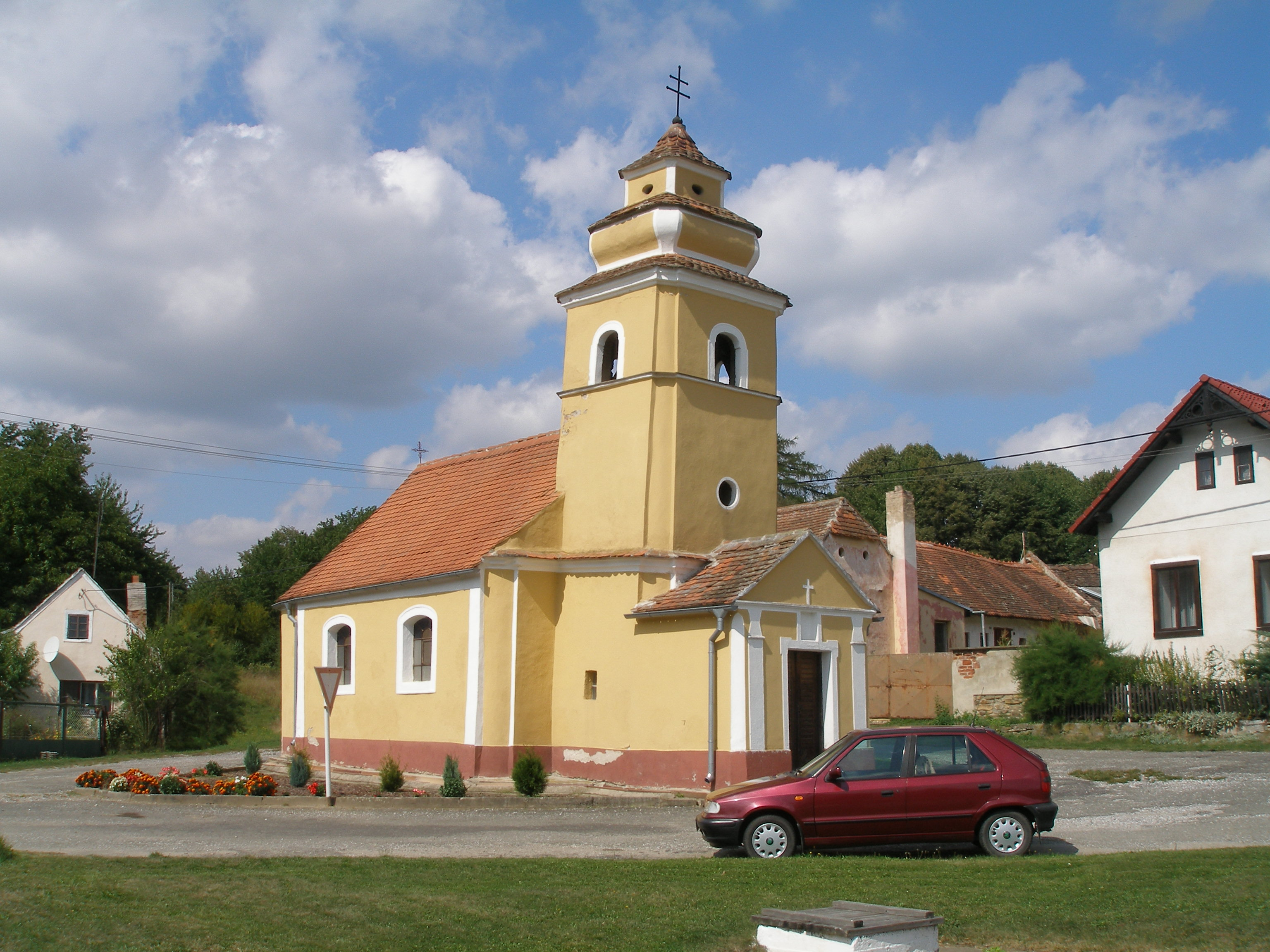 Podmyče - St. Margareth chapel